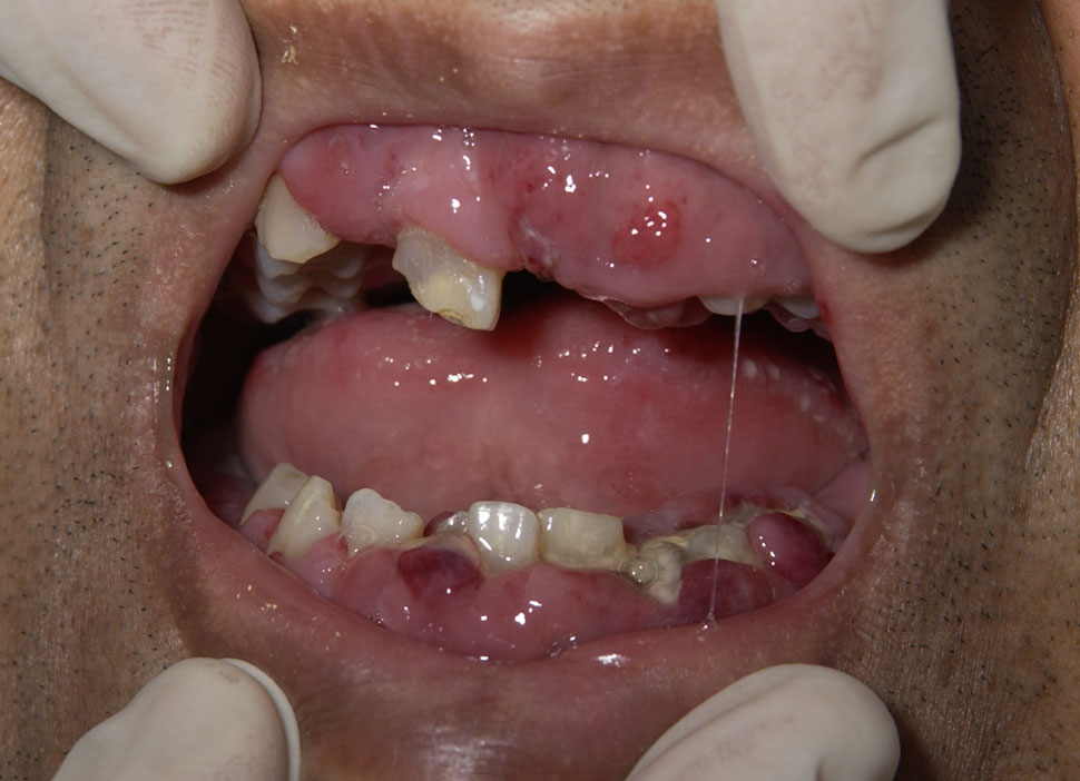 Diffusely swollen gums due to acute myelomonocytic leukemia